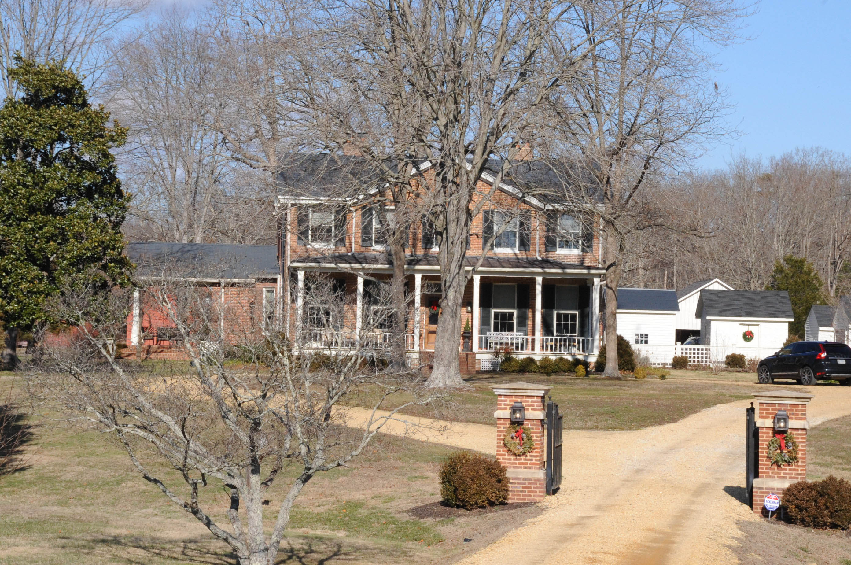 BUILT IN 1865 BUT ENLARGED IN THE 20TH CENTURY. MAIN HOUSE AND ALSO INCLUDED ARE MANY DEPENDENCIES OF THE FARM COMPLEX